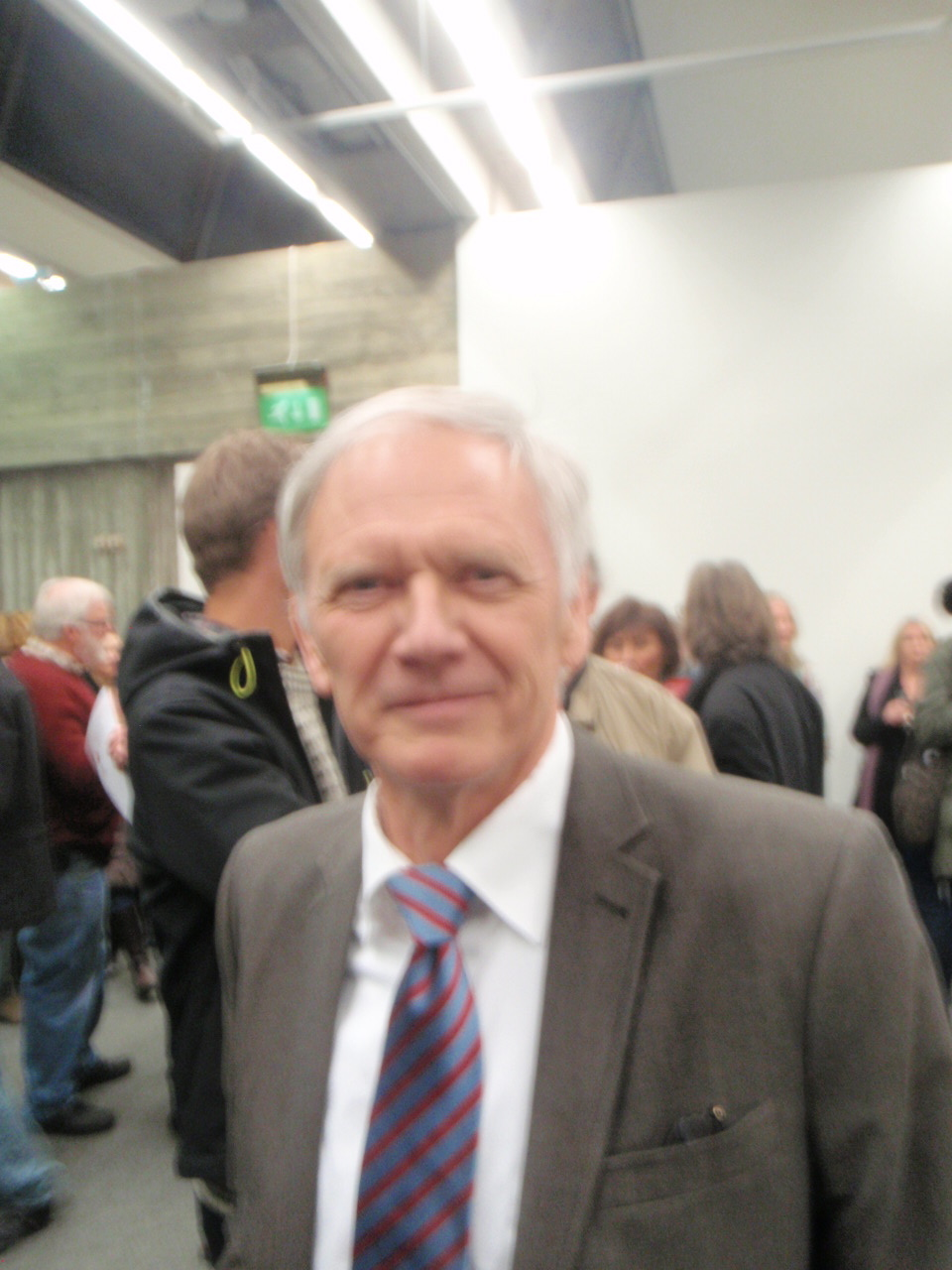 The Director of Aarhus Museum of Art (ARoS) Denmark at the opening of an exhibition in Bergen, Norway